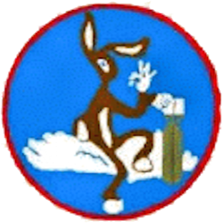 Emblem of the 440th Bombardment Group (World War II)